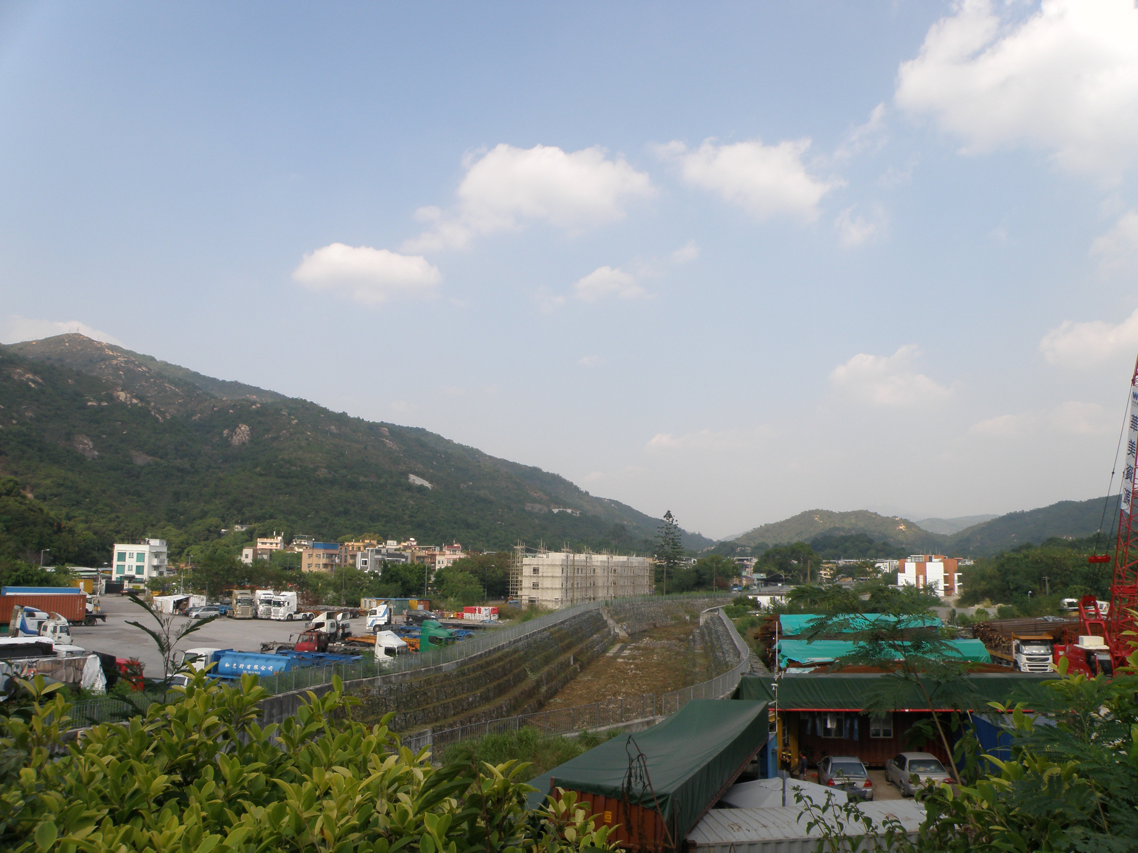 So Kwun Wat in New Territories, Hong Kong.